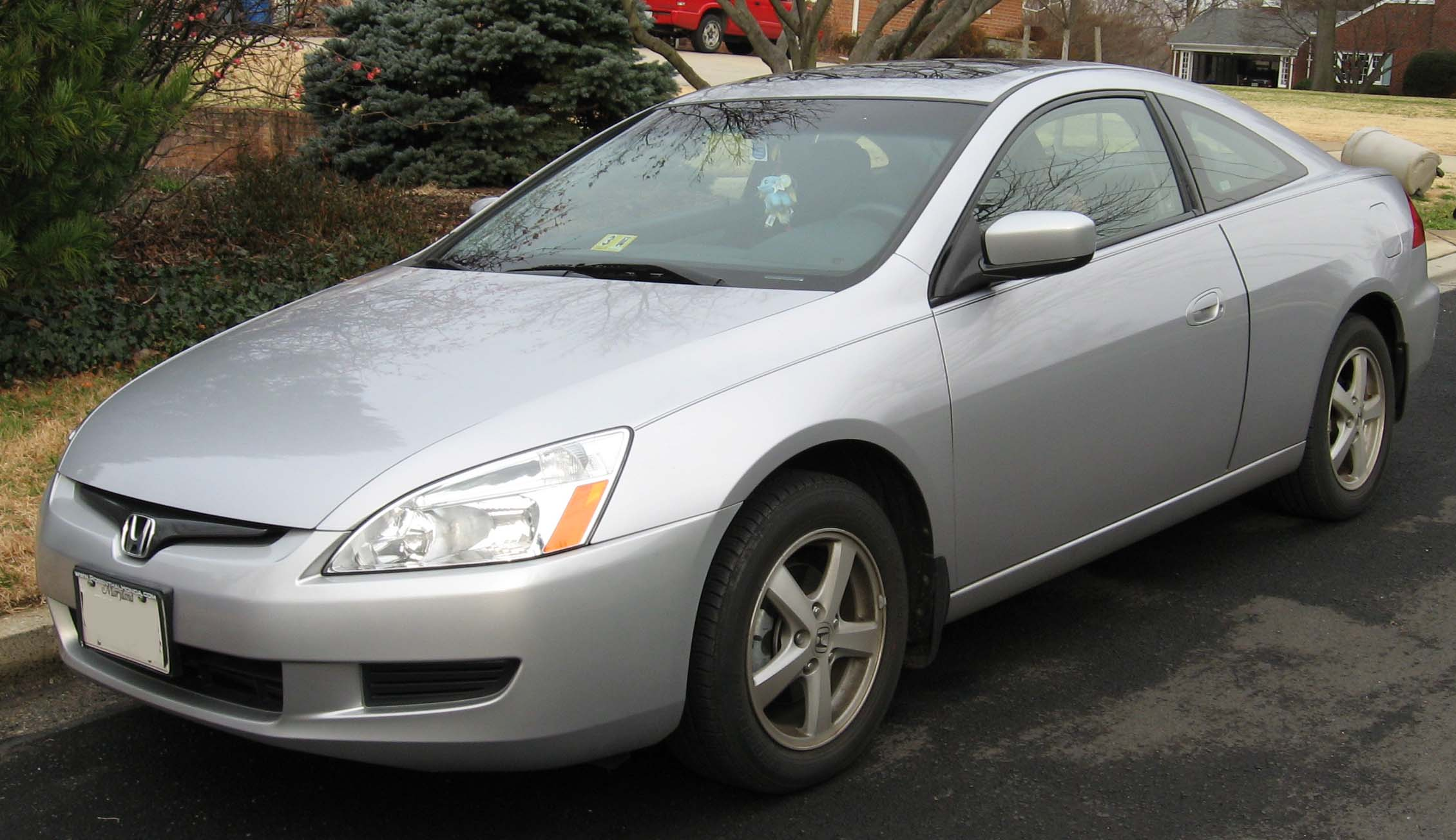 2003-2005 Honda Accord coupe photographed in USA.